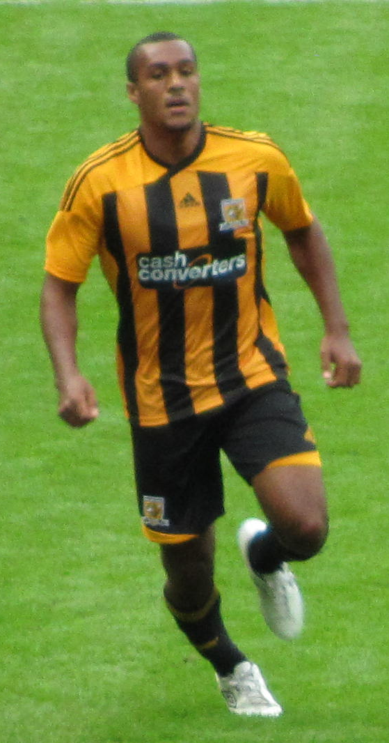 Jay Simpson